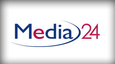 Media24